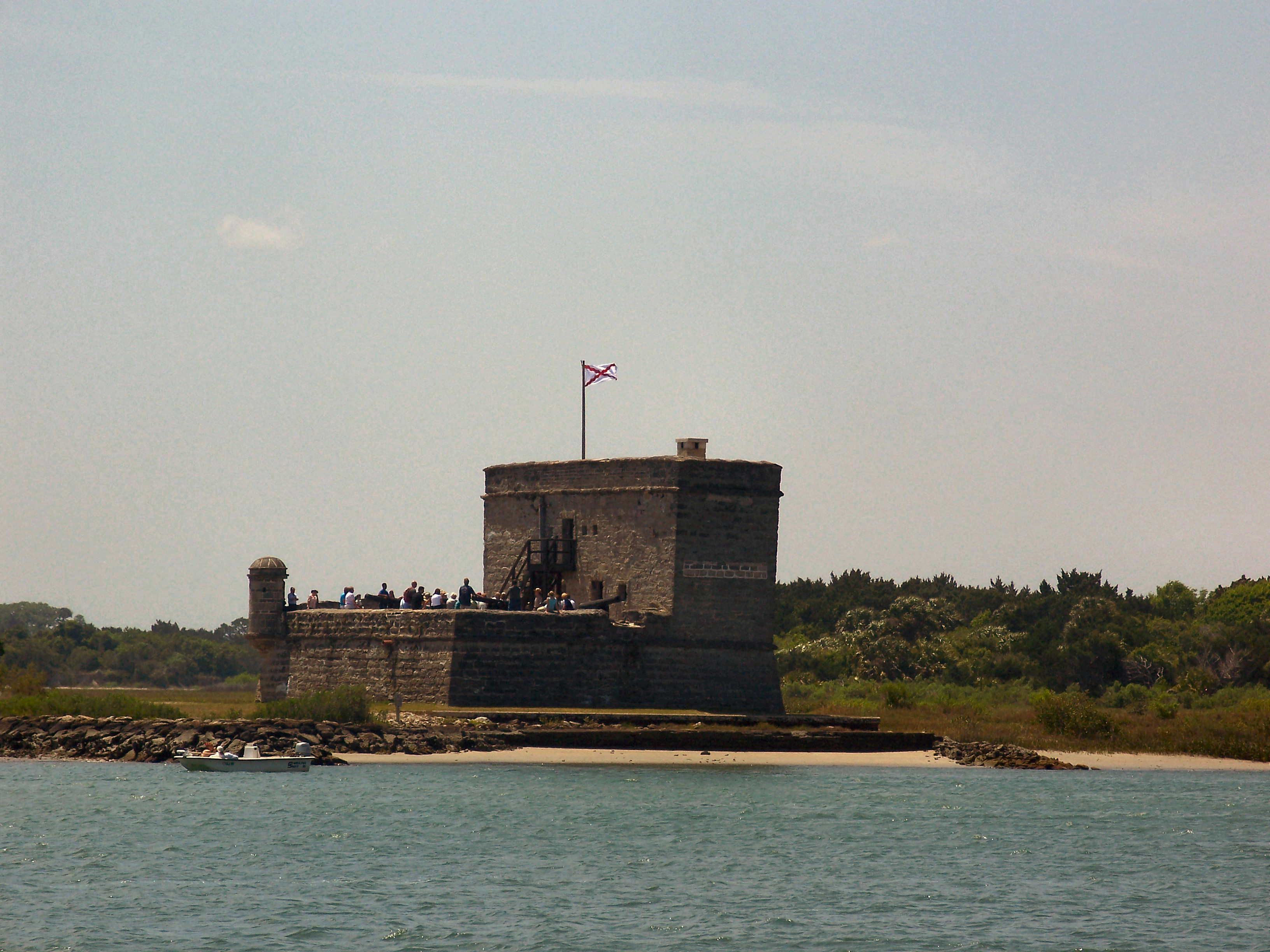 Fort Matanzas, near Crescent Beach, Florida